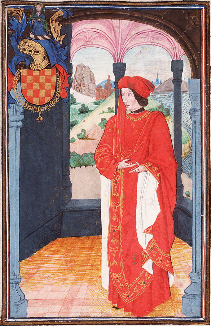 Statuts, Ordonnances et Armorial de l'Ordre de la Toison d'Or (Statutes, Ordonnances and armorial of the Order of the Golden Fleece) Place of origin, date: Southern Netherlands; 1473. Added sections: Southern Netherlands; 1478 or shortly after and 1491 or shortly after Material: Vellum, ff. 86, 249x187 (167x106) mm, 23 lines, littera cursiva (lettre bourguignonne). French. Binding: 18th-century brown leather Decoration: 1 full-page miniature (170x115 mm) with border decoration; 92 miniatures (185/155x120/100 mm); 1 historiated initial (80x90 mm) with border decoration; decorated initials with border decoration (ff., Added section: miniatures ; 4 drawings for miniatures (not finished) Provenance: Presented in 1473 by Gilles Gobet, King of Arms of the Order of the Golden Fleece, to Charles the Bold, Duke of Burgundy and the other Knights during the Chapter of the Order held at Valenciennes; Treasure of the Golden Fleece, Brussls; taken away by the Treasurer C.-F. Humyn (d. 1735) or his daughter C.Ch. de Corte; by legacy to her daughter M.-L. de Corte, wife of Ph.-E. de Poederlé; purchased in 1781 at the Poederlé sale by G.-J- Gérard of Brussels; acquired in 1832 as part of the Gérard collection (no. A 27)